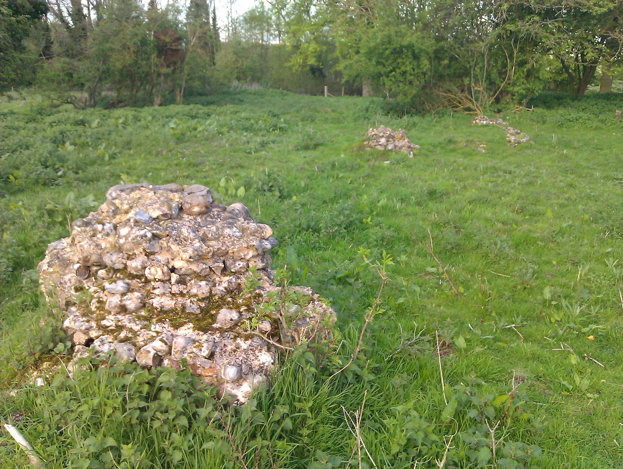 Remains of Hempton Priory, Norfolk - pictured May 2012